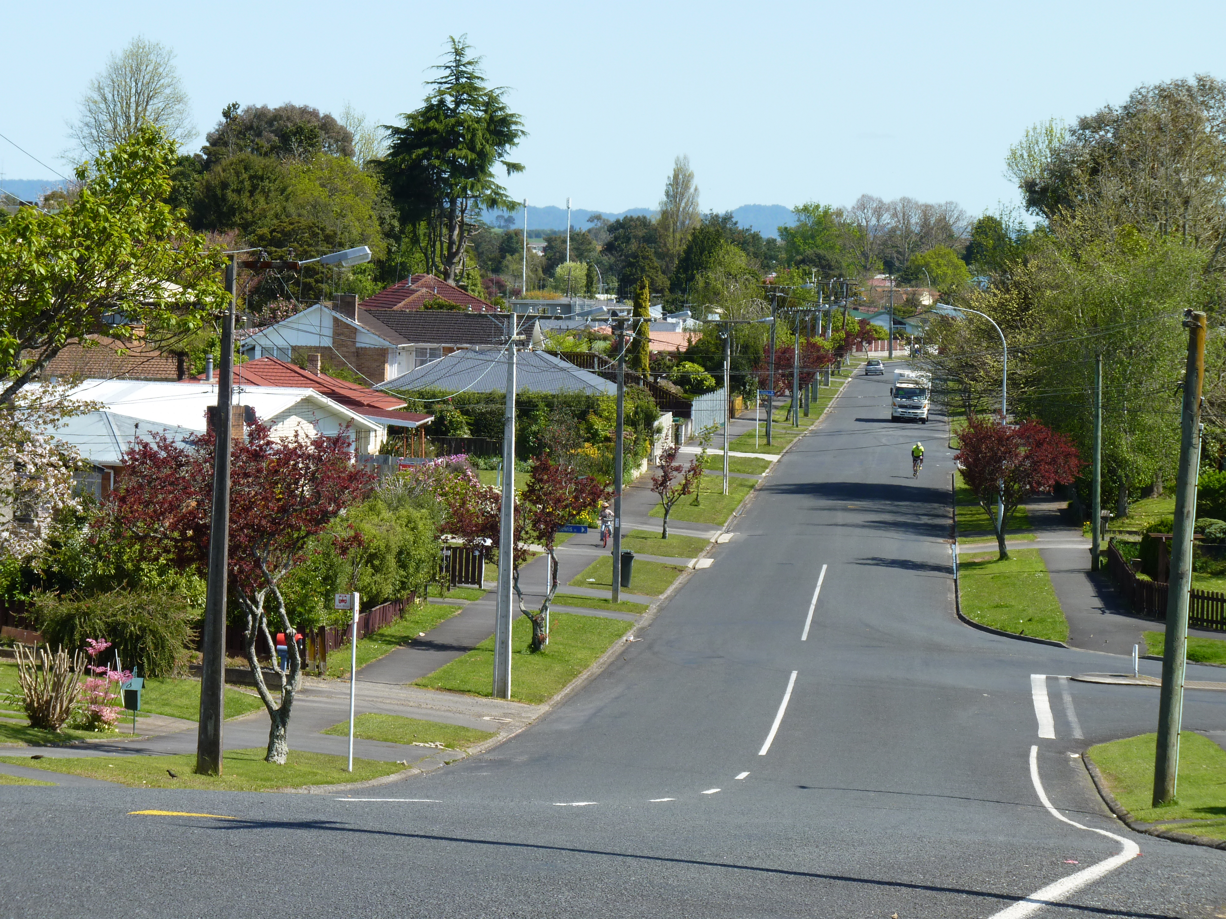 Glenview in south Hamilton.